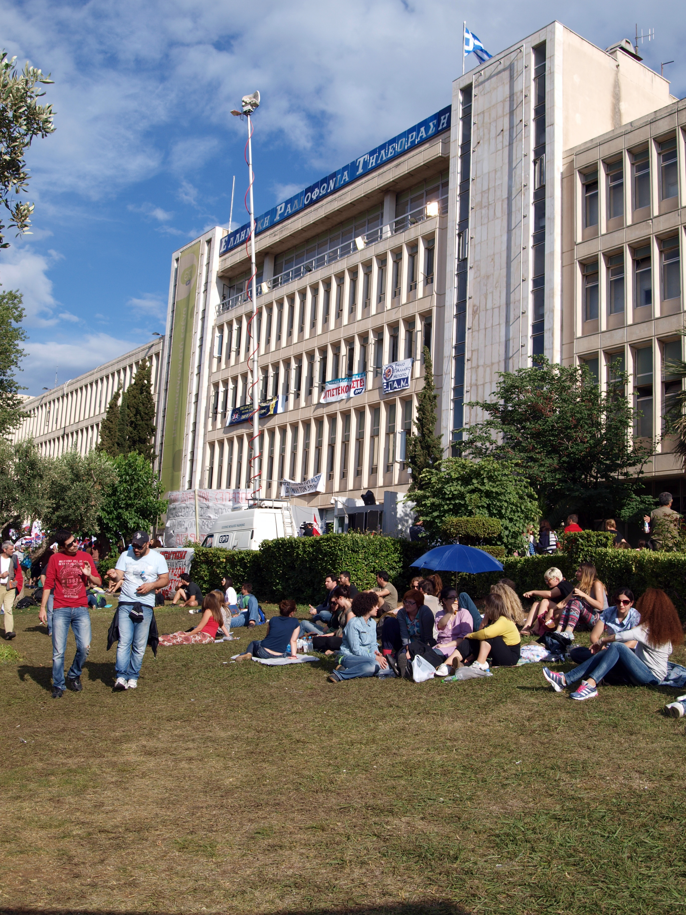 The ERT conundrum